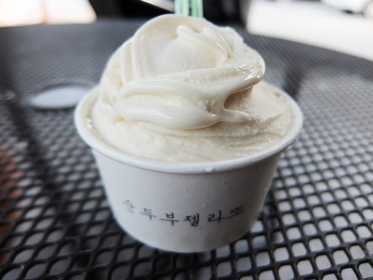 Sundubu gelato